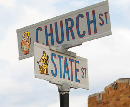 A symbol of the secularism